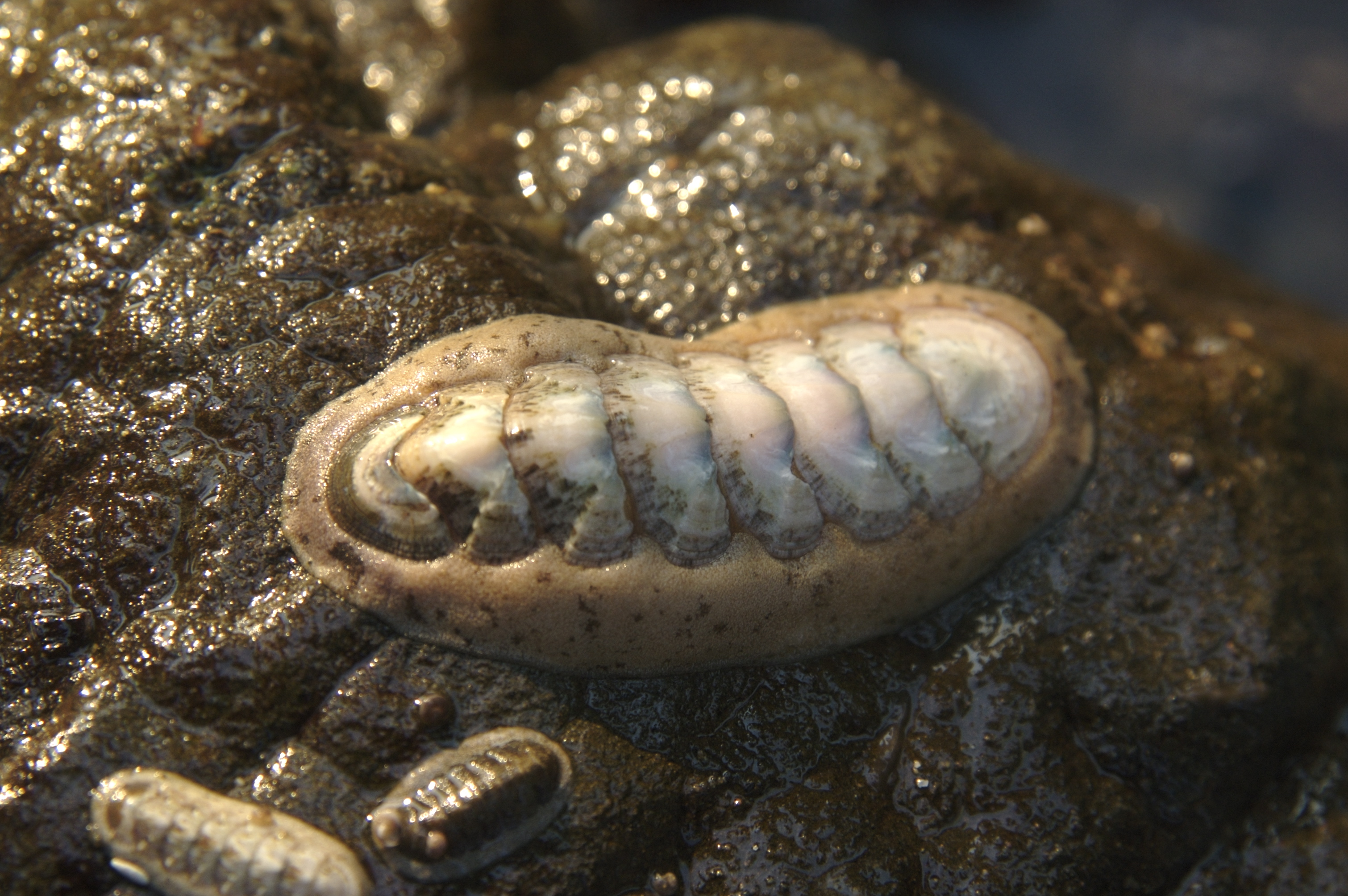 Stenoplax heathiana at Hazard Reef near Morro Bay, California, USA